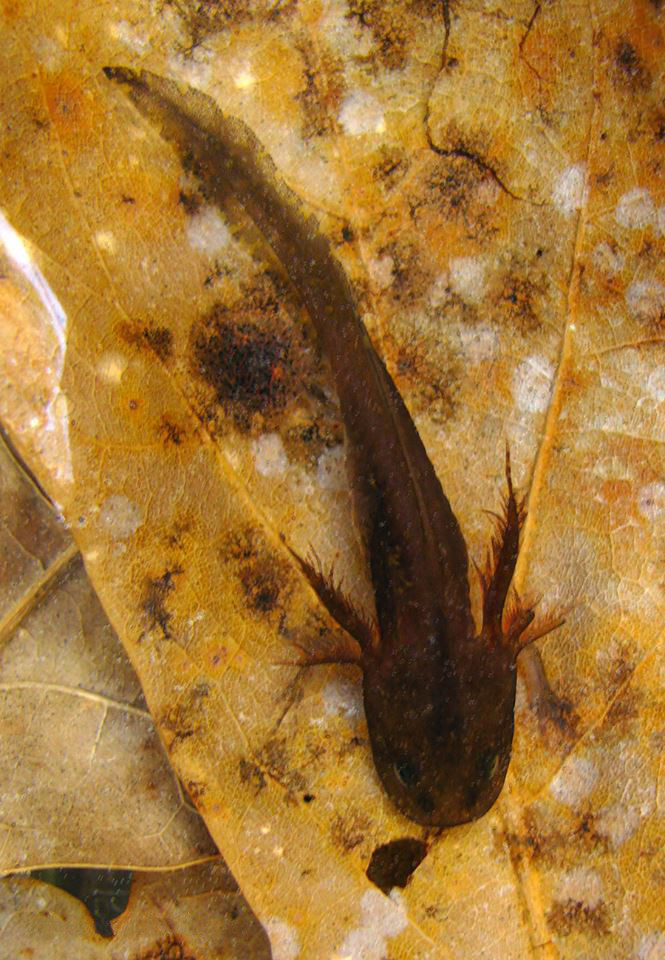 Marbled salamander larvae (Ambystoma opacum)